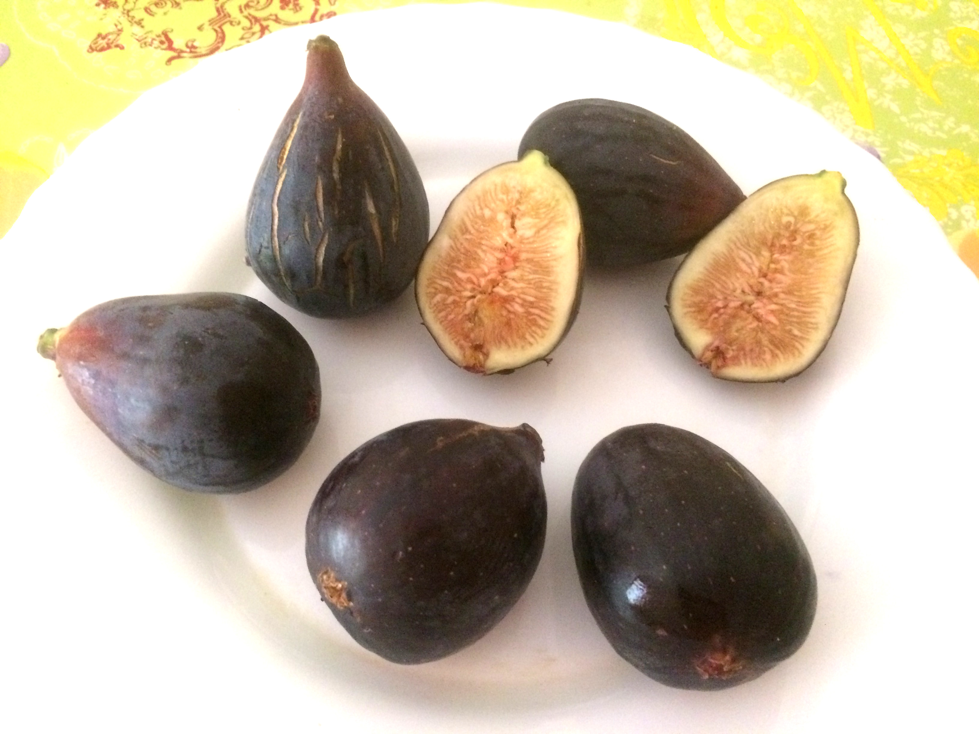 Figs Colar Albatera